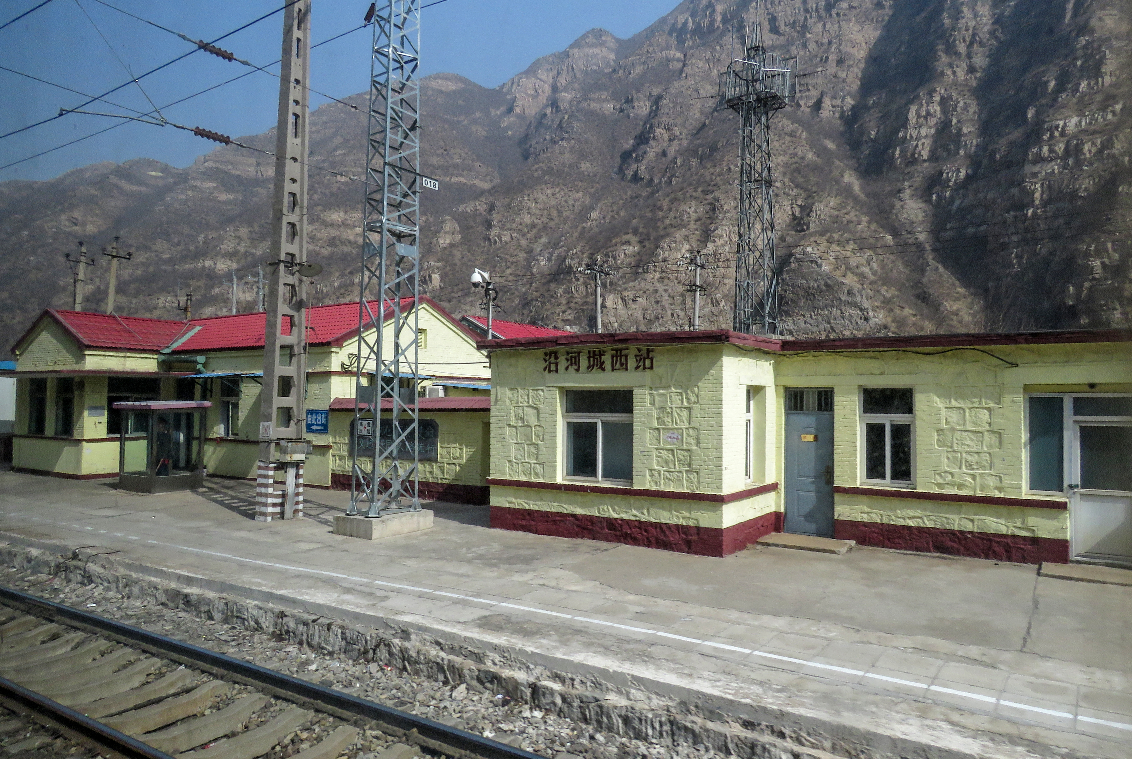 TMIS code: 13446.